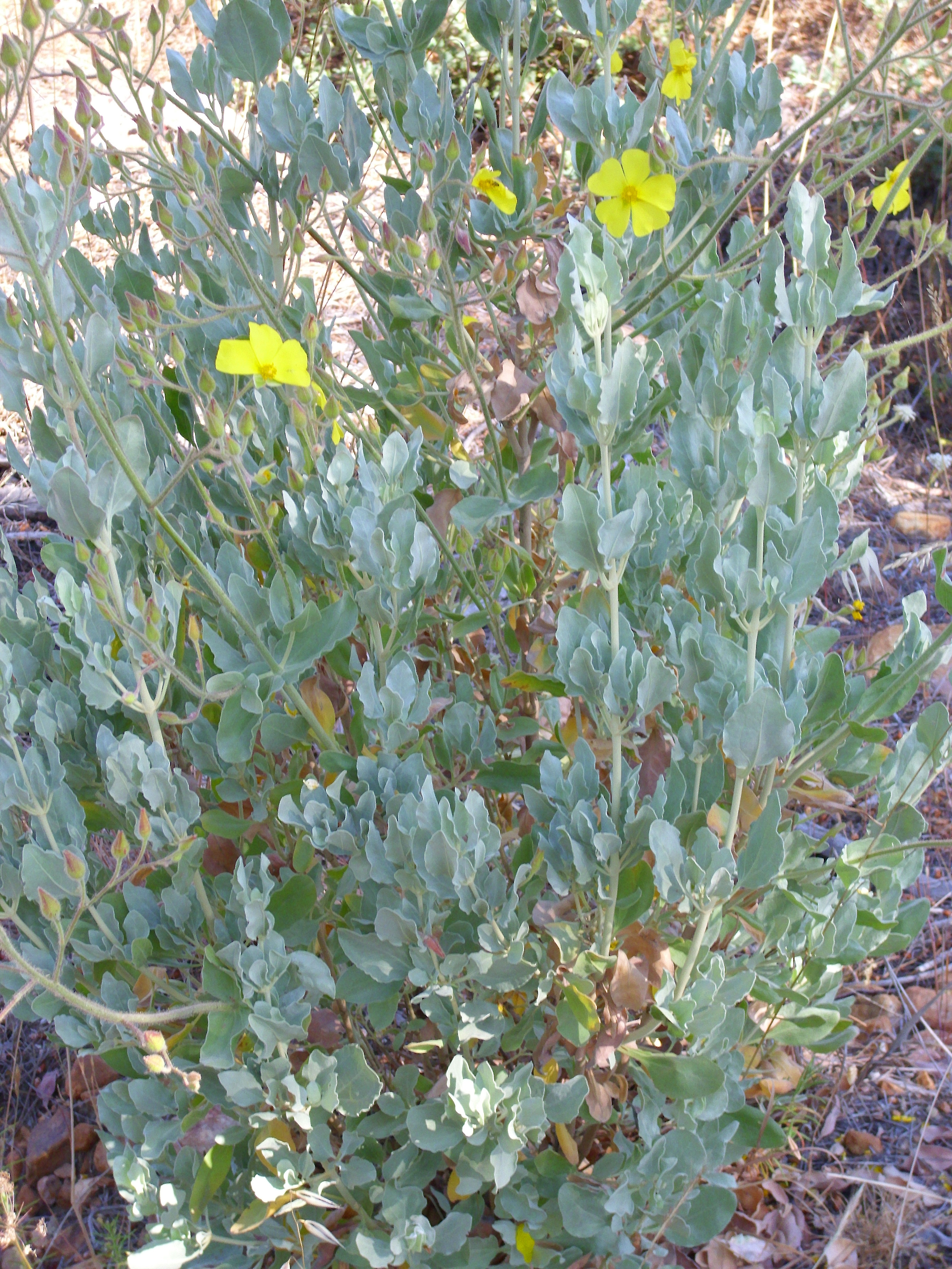 Halimium halimifolium habit, Dehesa Boyal de Puertollano, Spain